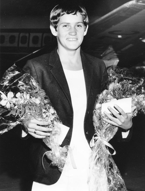 Helen Gray, Olympic swimmer. She is photographed here by Alex Trotter, ca. 1972.